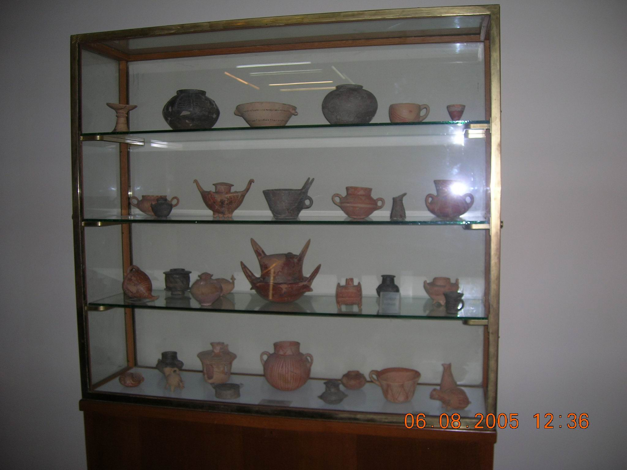 Archaeological Museum of Herakleion, Hall I, showcase 4: Prepalatial Pottery from Lebena, Onouphrios and Pyrgos style.